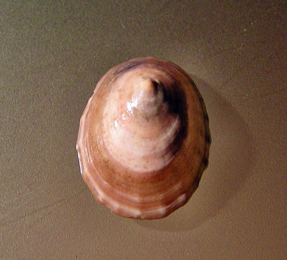 Cellana flava (Hutton, 1873), a limpet from the family Nacellidae; New Zealand